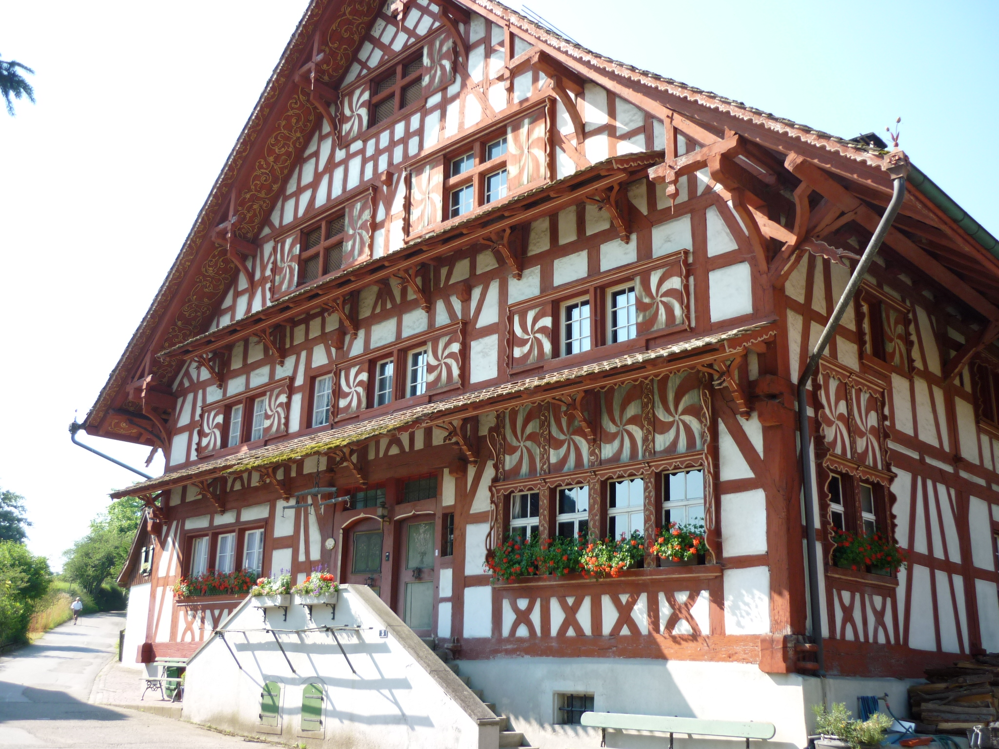 Eglihaus, Hombrechtikon ZH, Switzerland, built in 1665-66